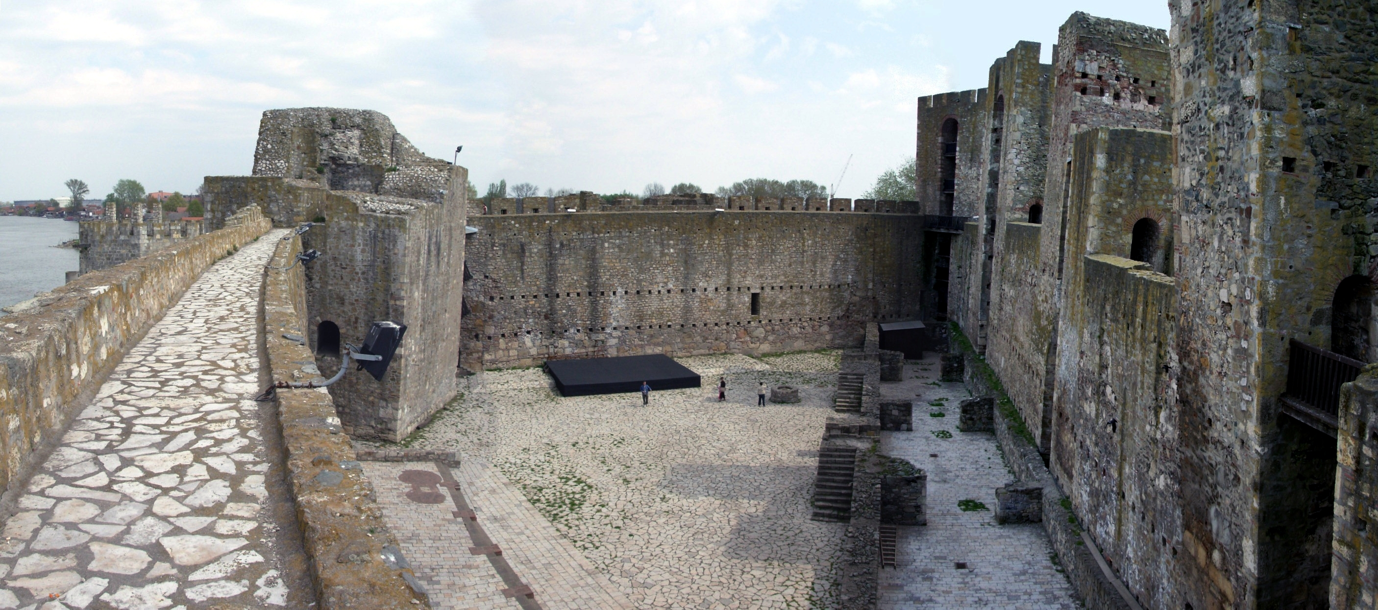 Panoramic photo of small town Smederevo Fortress. (Photo taken from above the entrance gate)